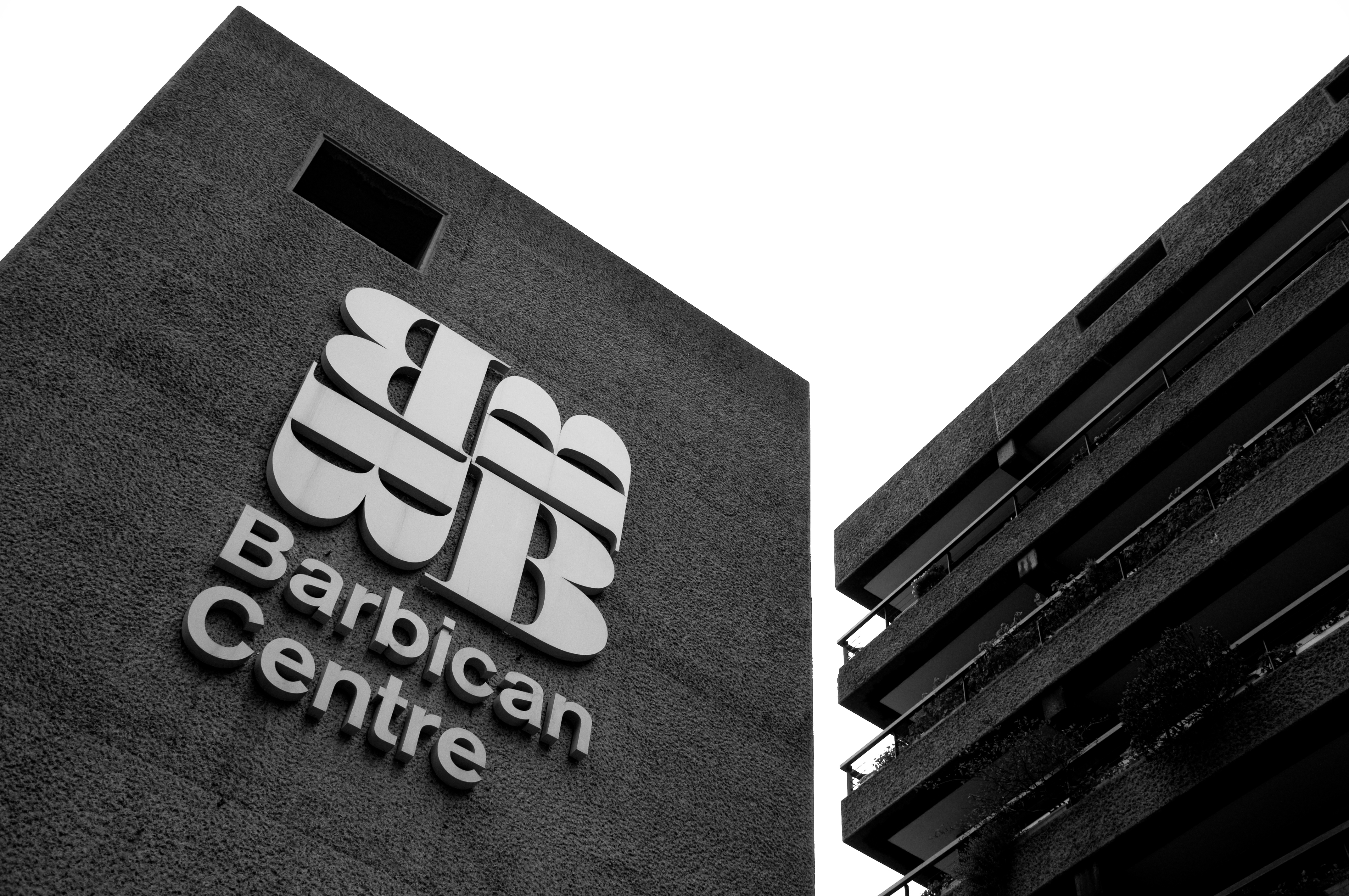 The brutalist architecture of the Barbican Centre in black and white.